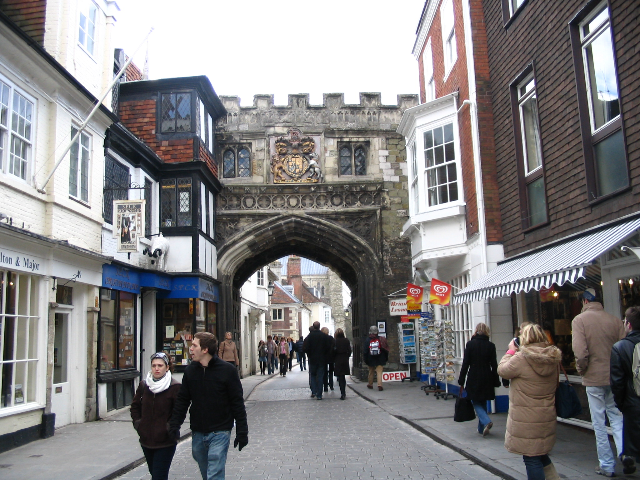 The old town of New Sarum (Salisbury), England